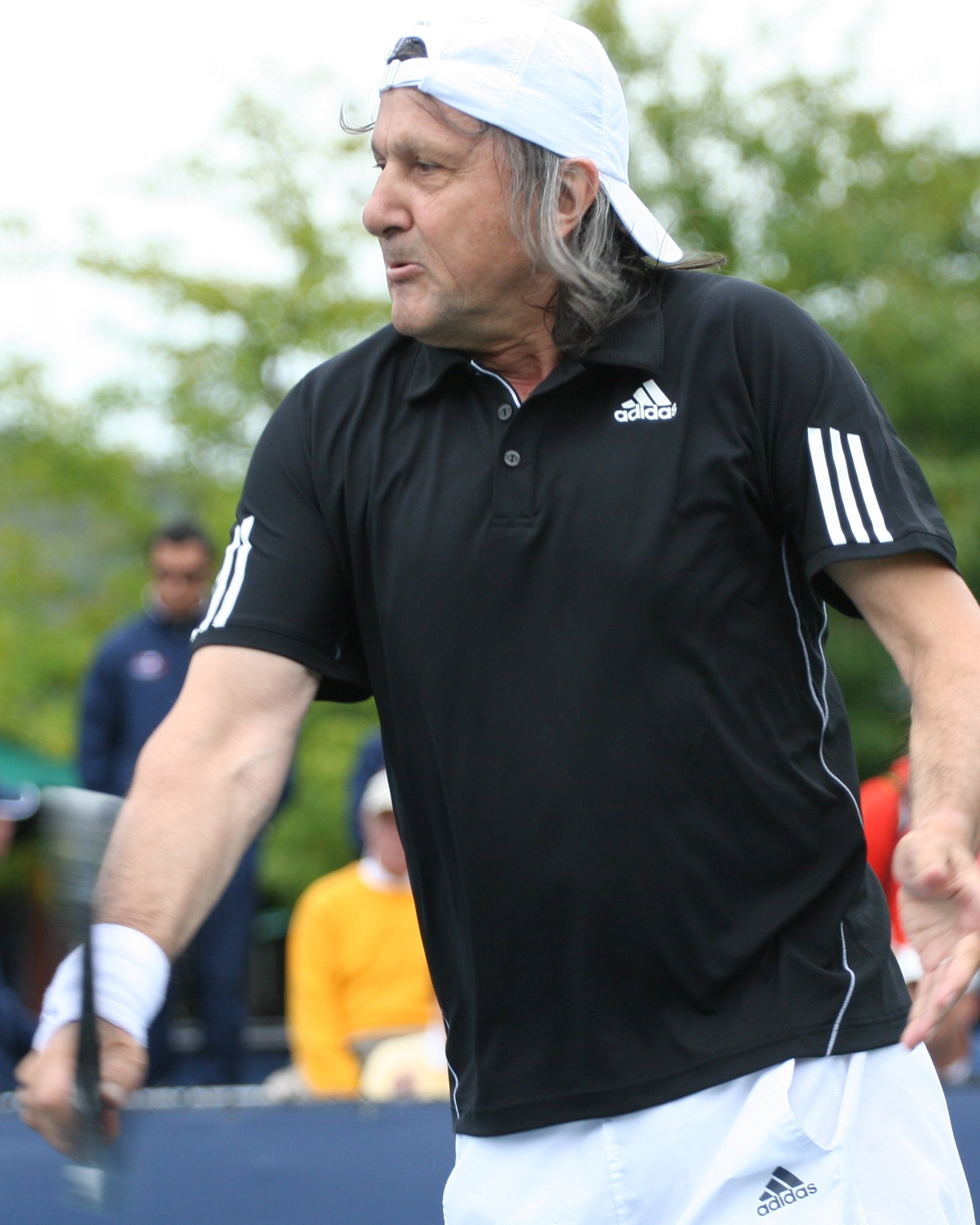 U.S. Open Champions Team Tennis Thursday, Sept. 10, 2009